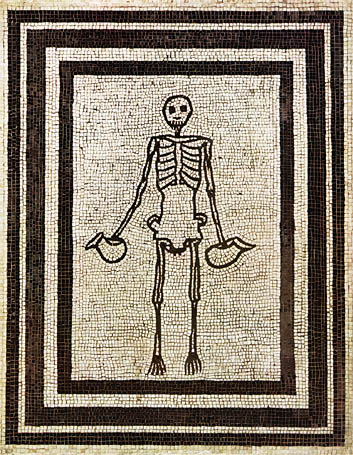 Skeleton carrying pitchers, mosaic from Pompeii; now in the Museo Archeologico Nazionale (Naples)